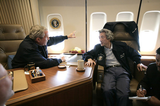 President George W Bush and Prime minister Junichiro Koizumi on Air Force One in route for Graceland.